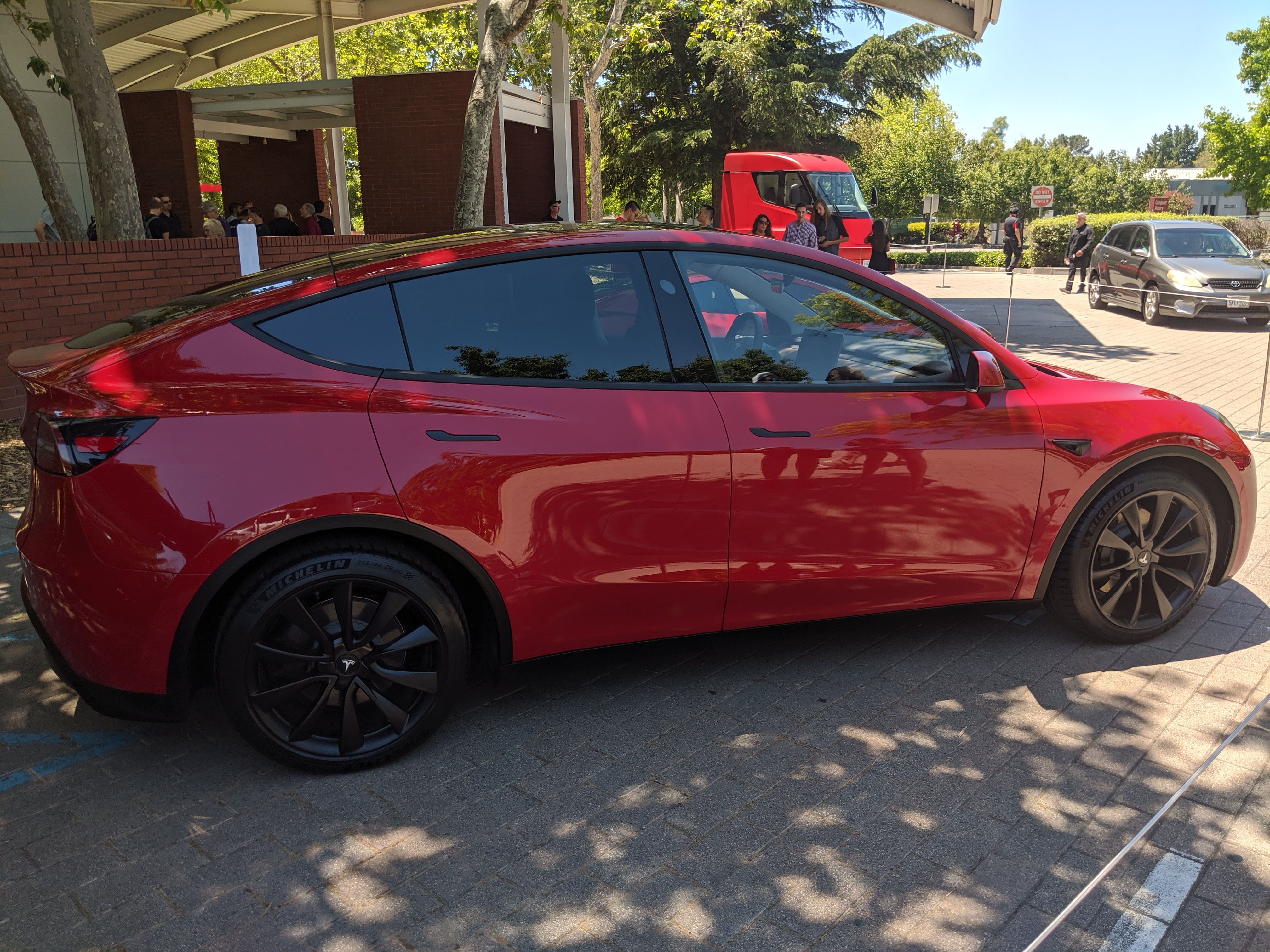 Tesla Model Y passenger side view, taken at investor conference